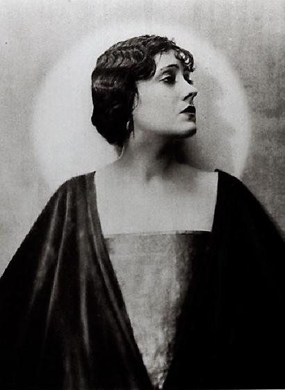 Gloria Swanson